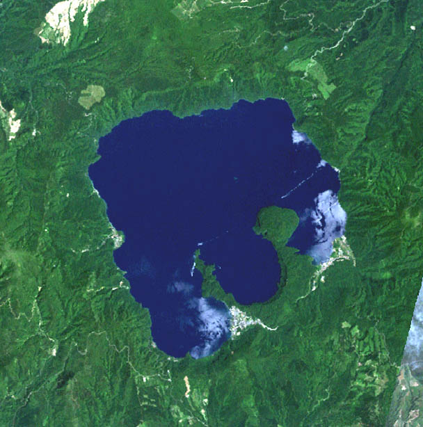 Picture of Lake Towada in Japan.